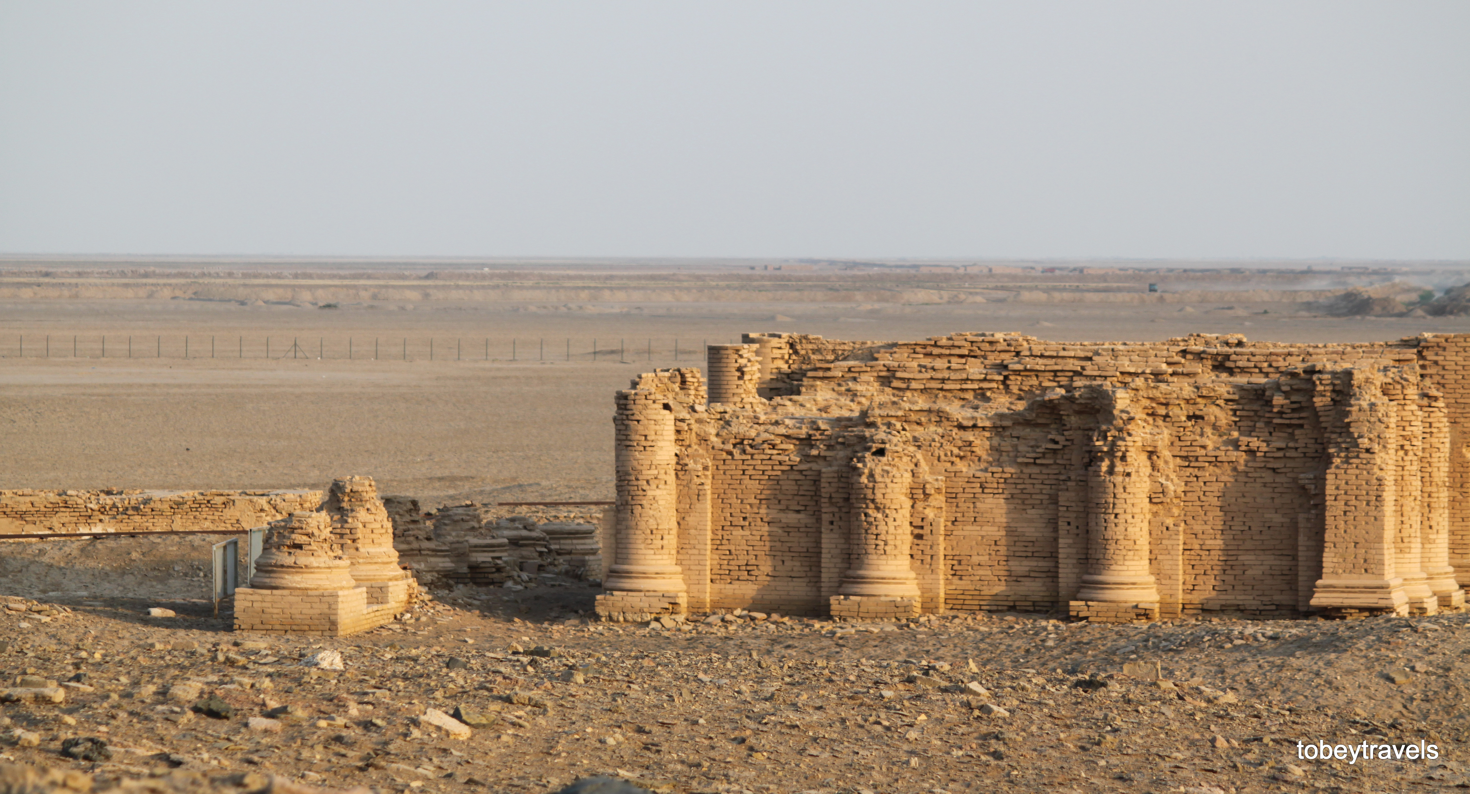 Uruk Temple of Charyos (2)